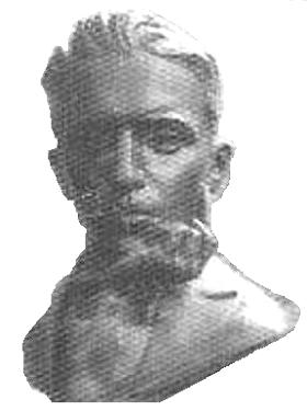 A portrait picture of the Ukrainian composer Mykhailo Haivoronsky based on his grave.